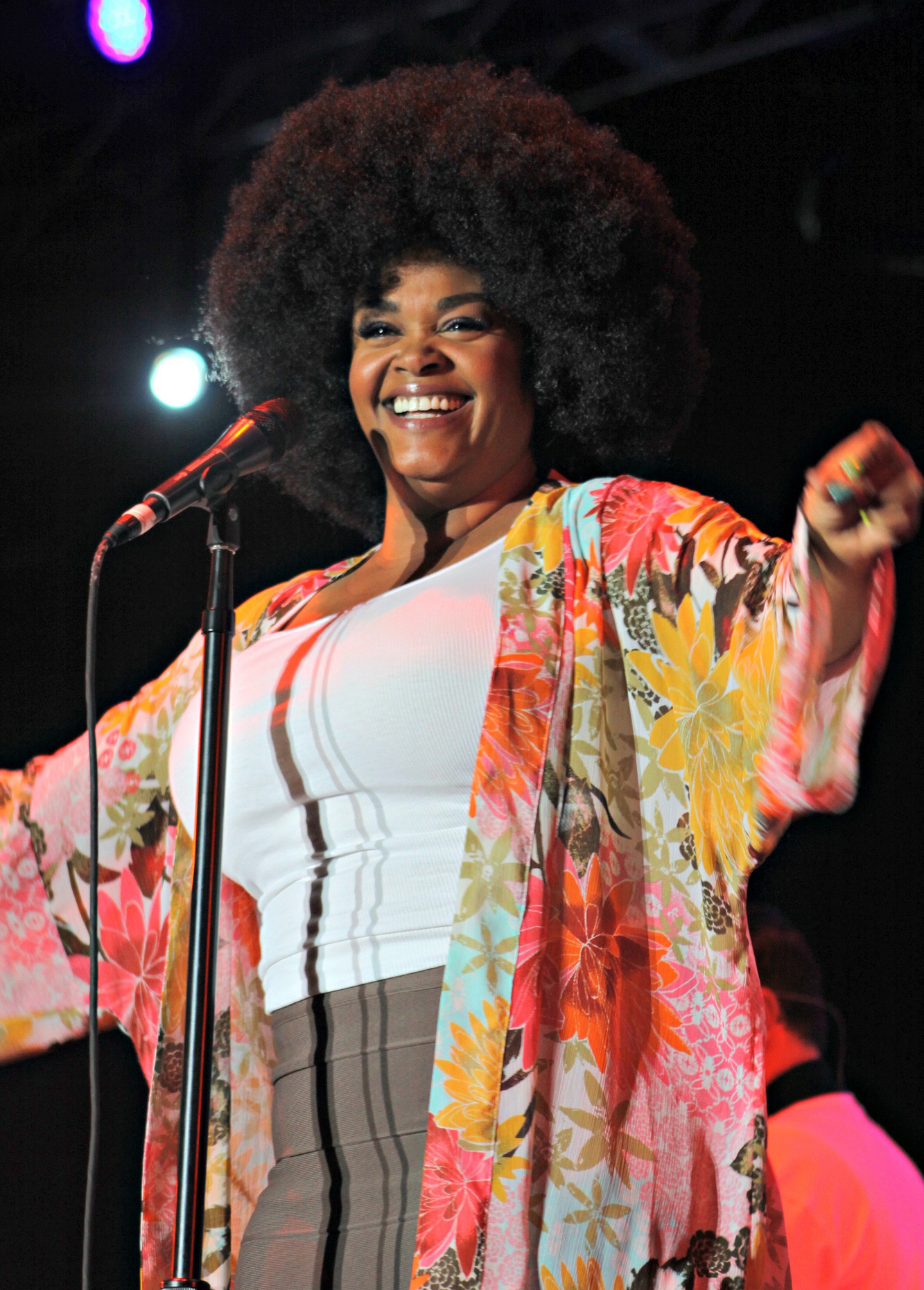 Jill Scott performing live as part of "Jazz in the Gardens", taken March 17, 2012